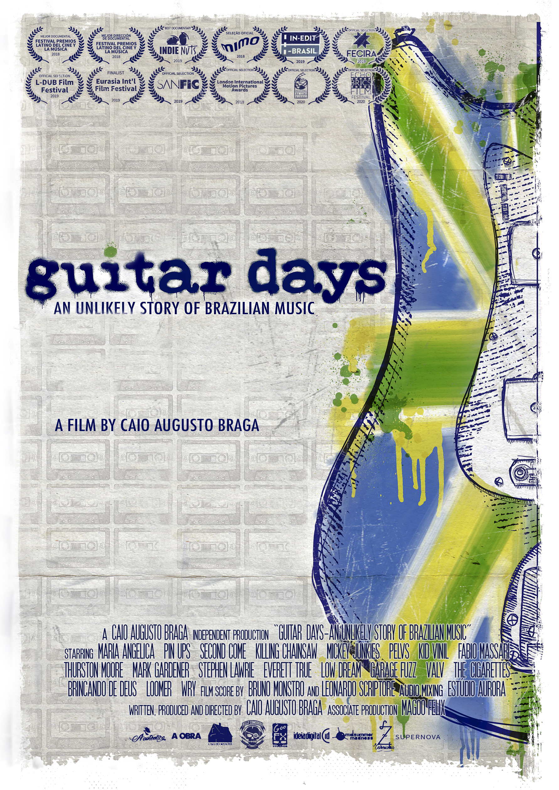 Guitar Days • An Unlikely Story of Brazilian Music Documentary, 2019, Brazil/Uk.